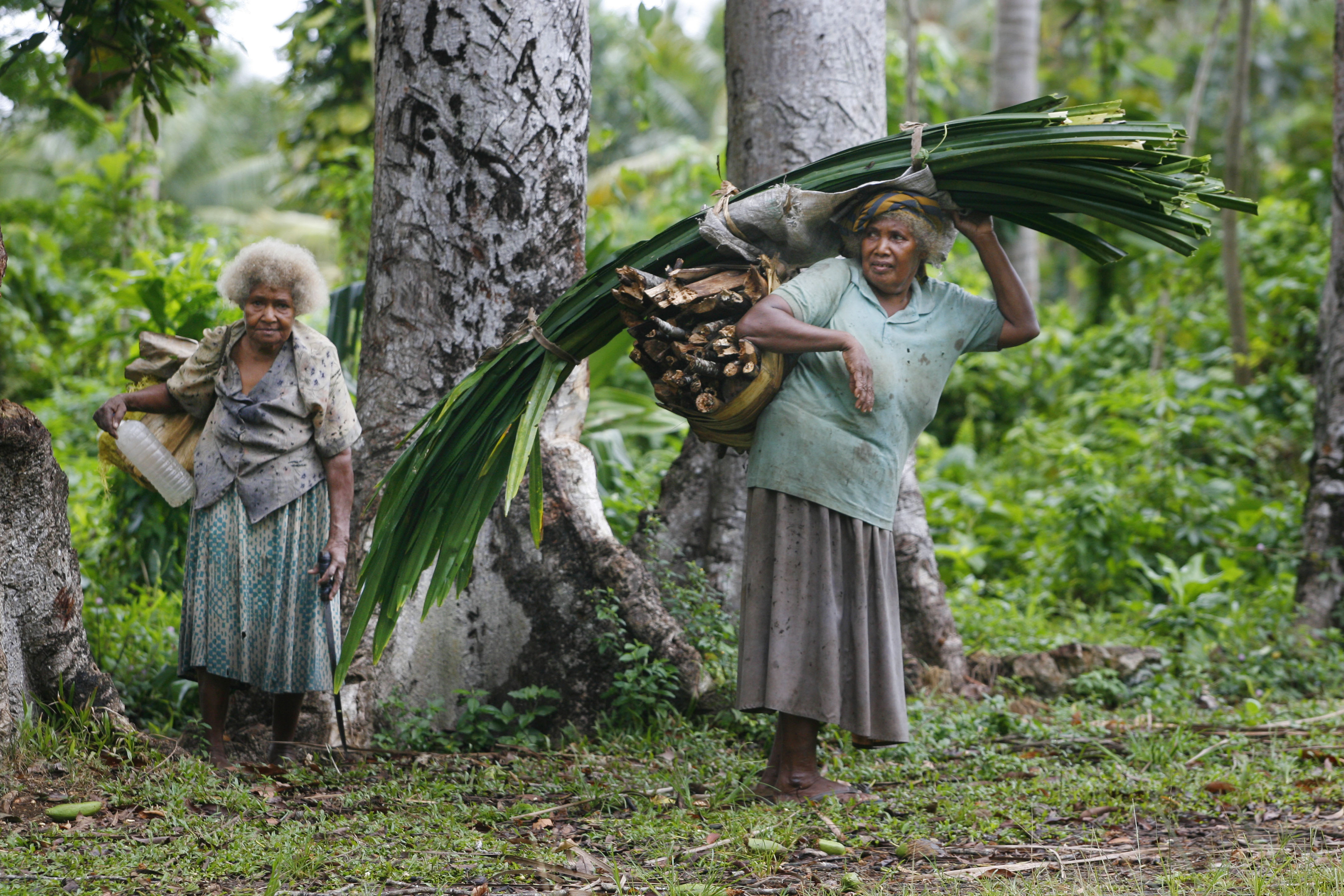 Forests provide a range of products that support livelihoods in many rural communities. Solomon Islands. Photo: Rob Maccoll for AusAID. To request copyright use and access to hi-res versions of this photo